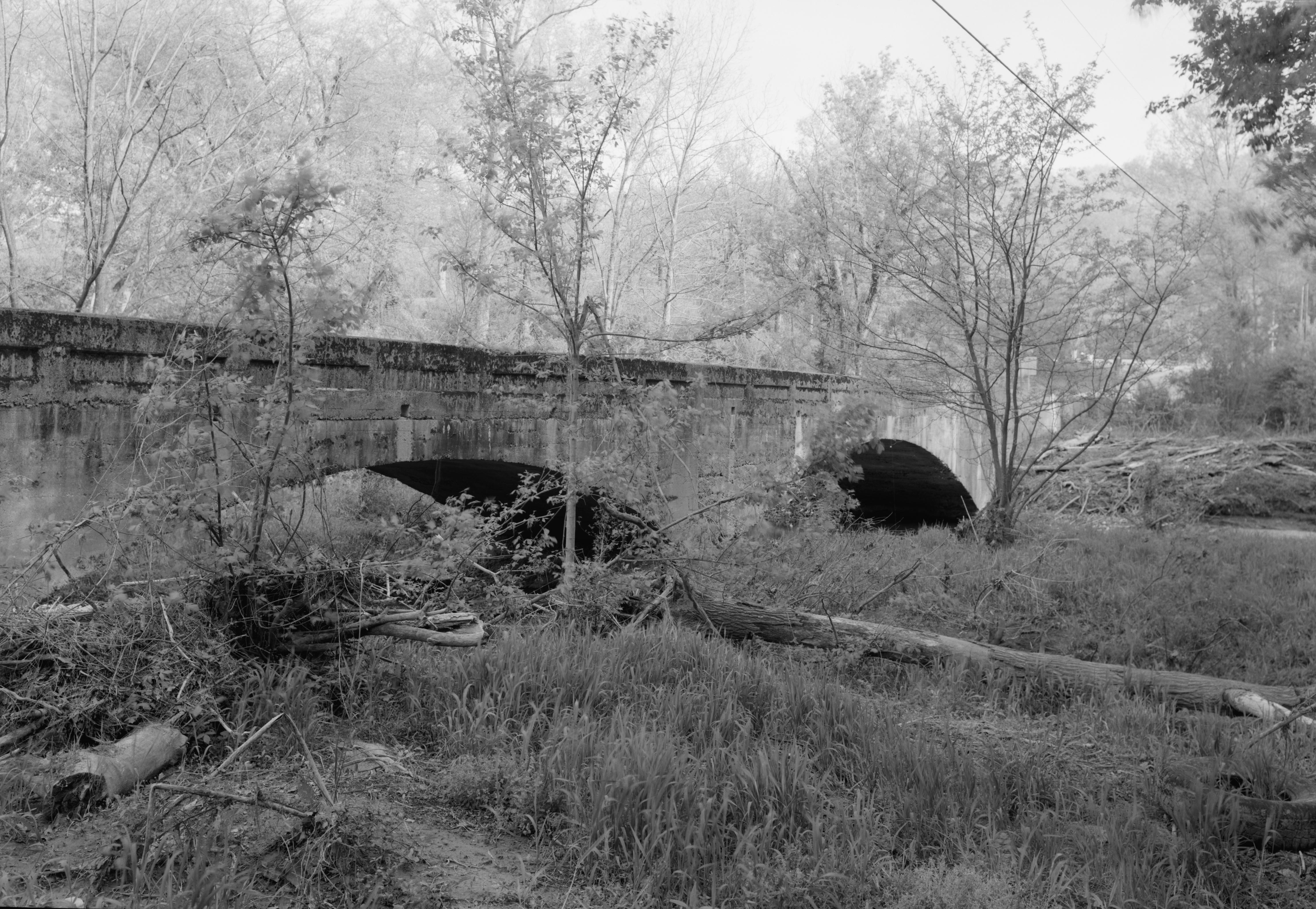 Miller Creek Bridge, Spanning Miller Creek at Miller Creek Road (CR 86), Batesville vicinity (Independence County, Arkansas)